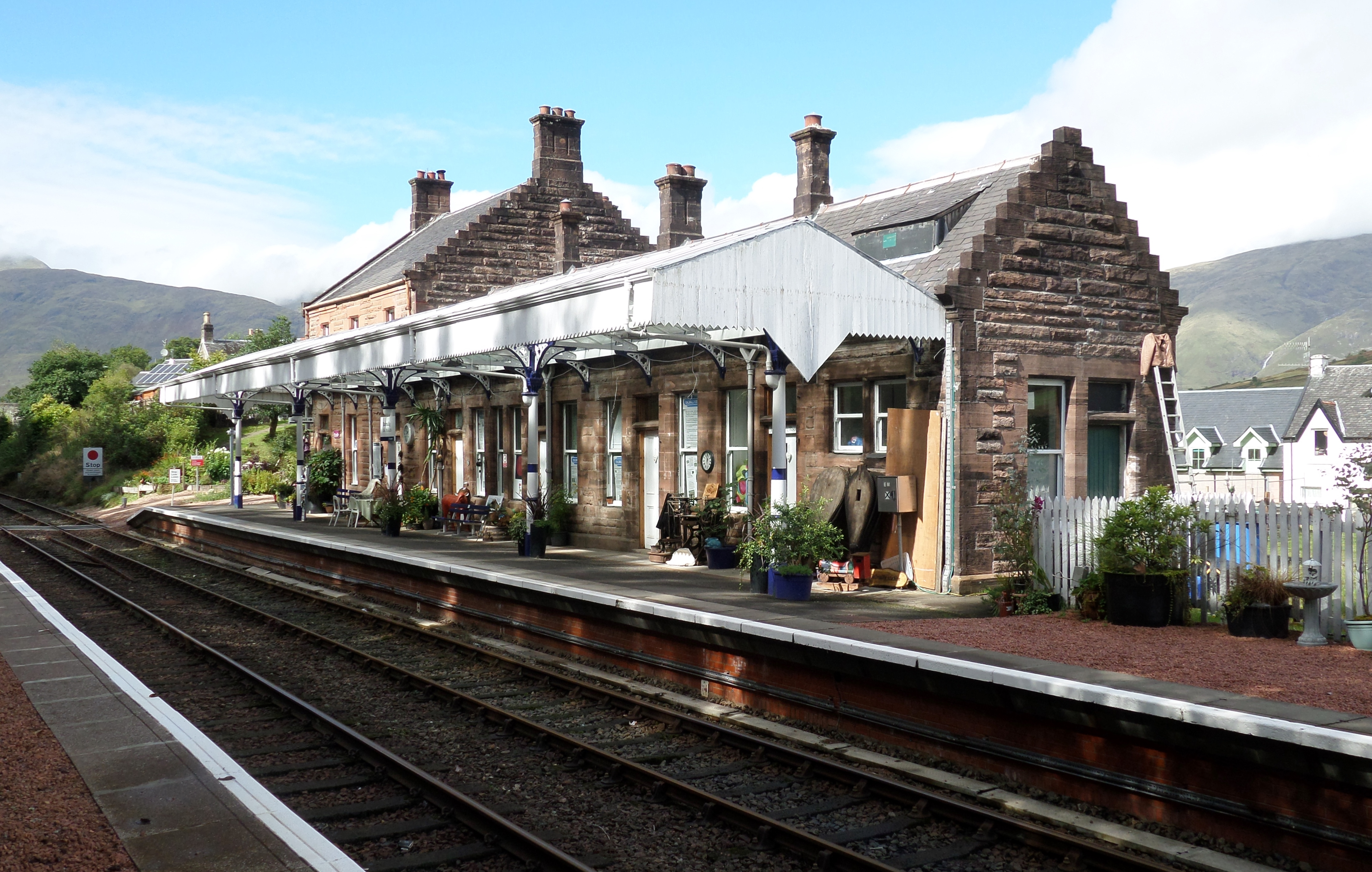 Dalmally Station, Oban Branch - view of station buildings